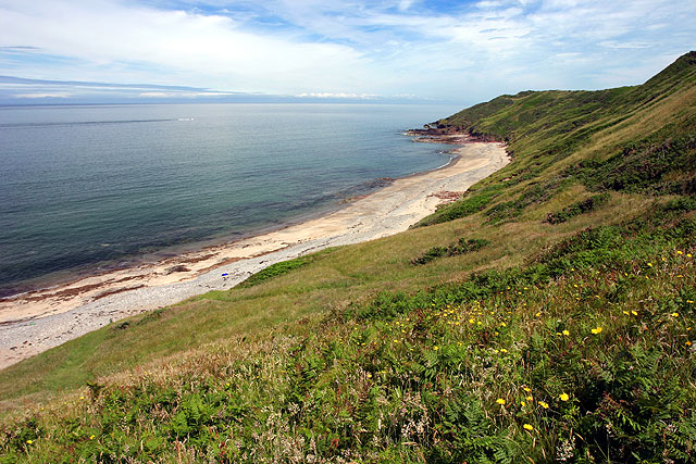 White Strand. Probably the finest "wild" beach on the island - a superb spot.